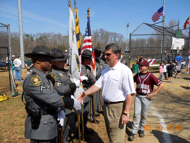 Governor Bob Ehrlich meeting members of MDTA Police Honor Guard